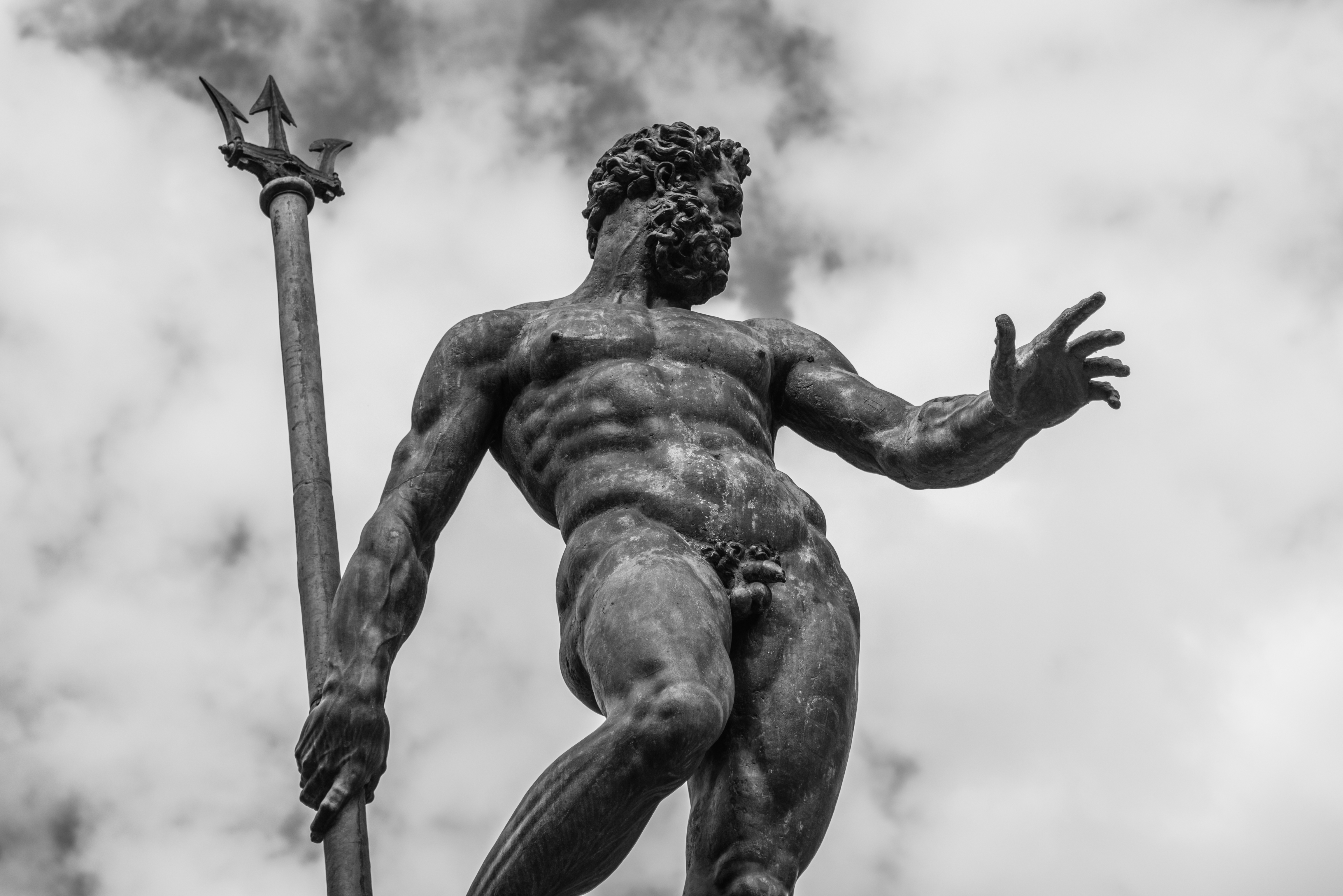 Fountain of Neptun in Bologna (Emilia Romagna) Italy This is a photo of a monument which is part of cultural heritage of Italy.